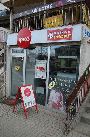 Ipko shop in Prishtina